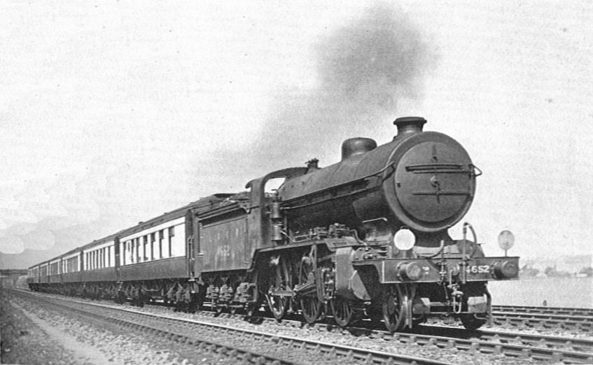 The "Clacton Pullman" Express, L.N.E.R. Hauled by "mixed traffic" 2-6-0 locomotive LNER K2 class